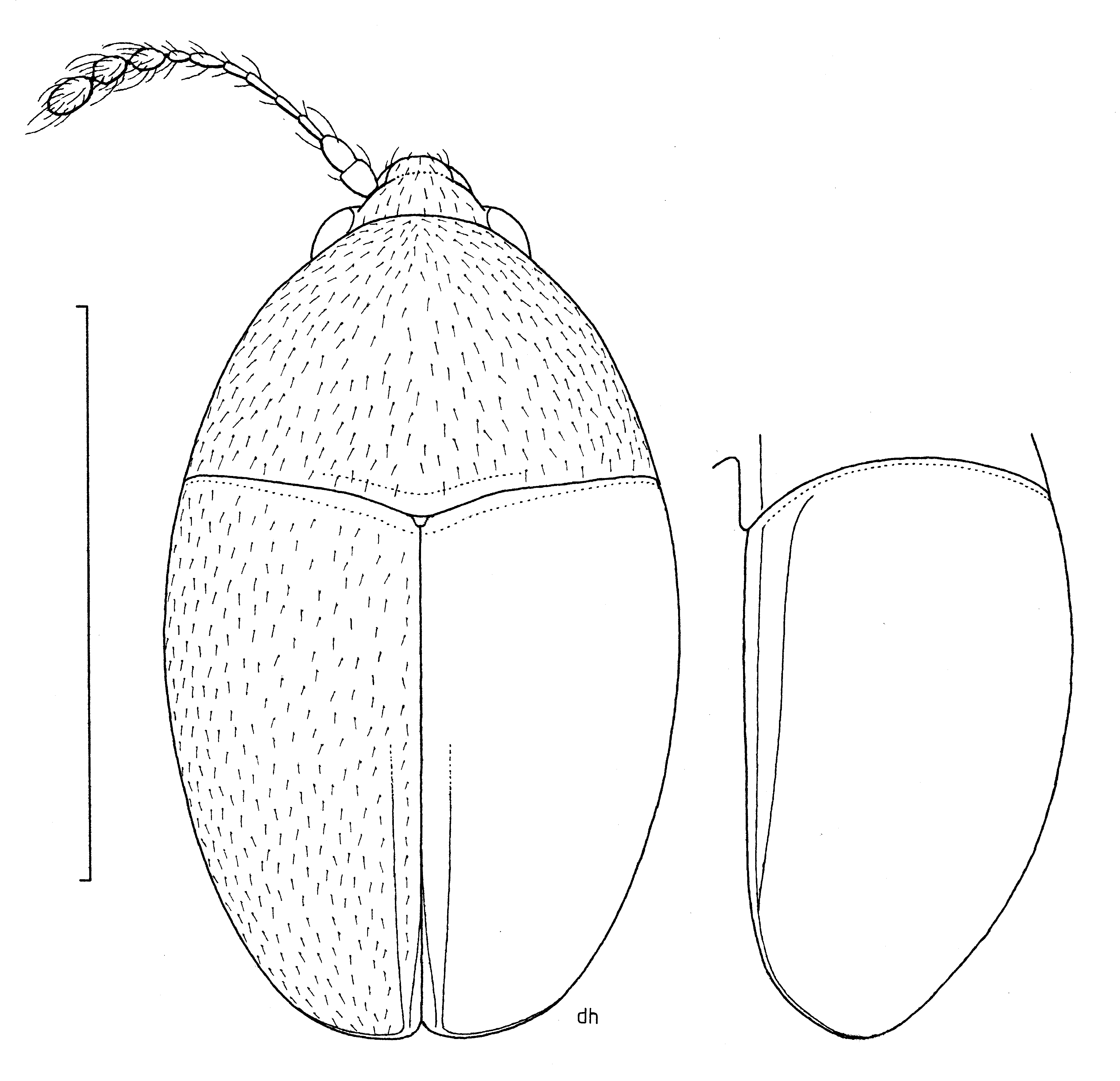 (Coleoptera: Staphylinidae) Baeocera sternalis illustrated by Des Helmore.